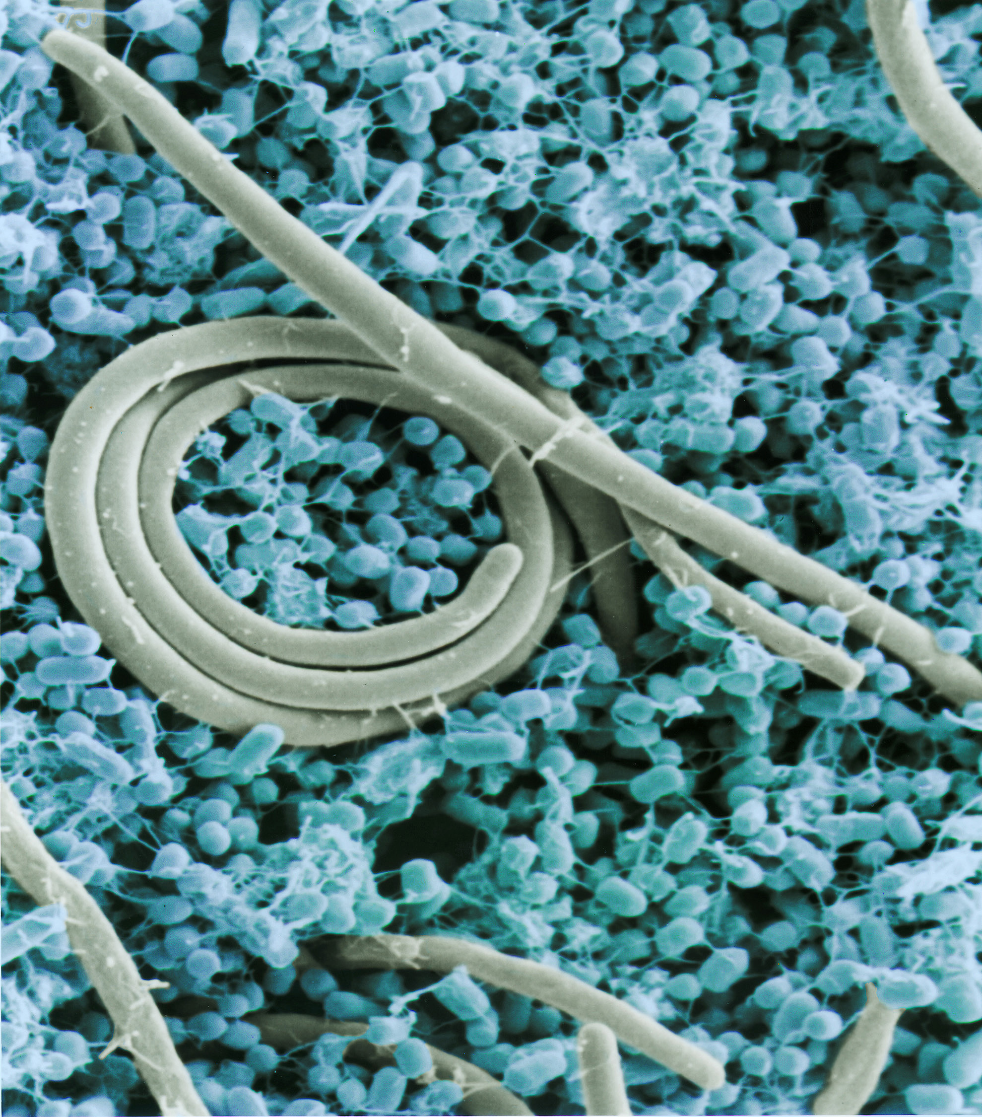 Colorized SEM (scanning electron micrograph) of the foodborne pathogen Salmonella enteritidis. Blue is growth medium. Picture is colored in false colors to illustrate difference. Photo by Jean Guard, ARS.